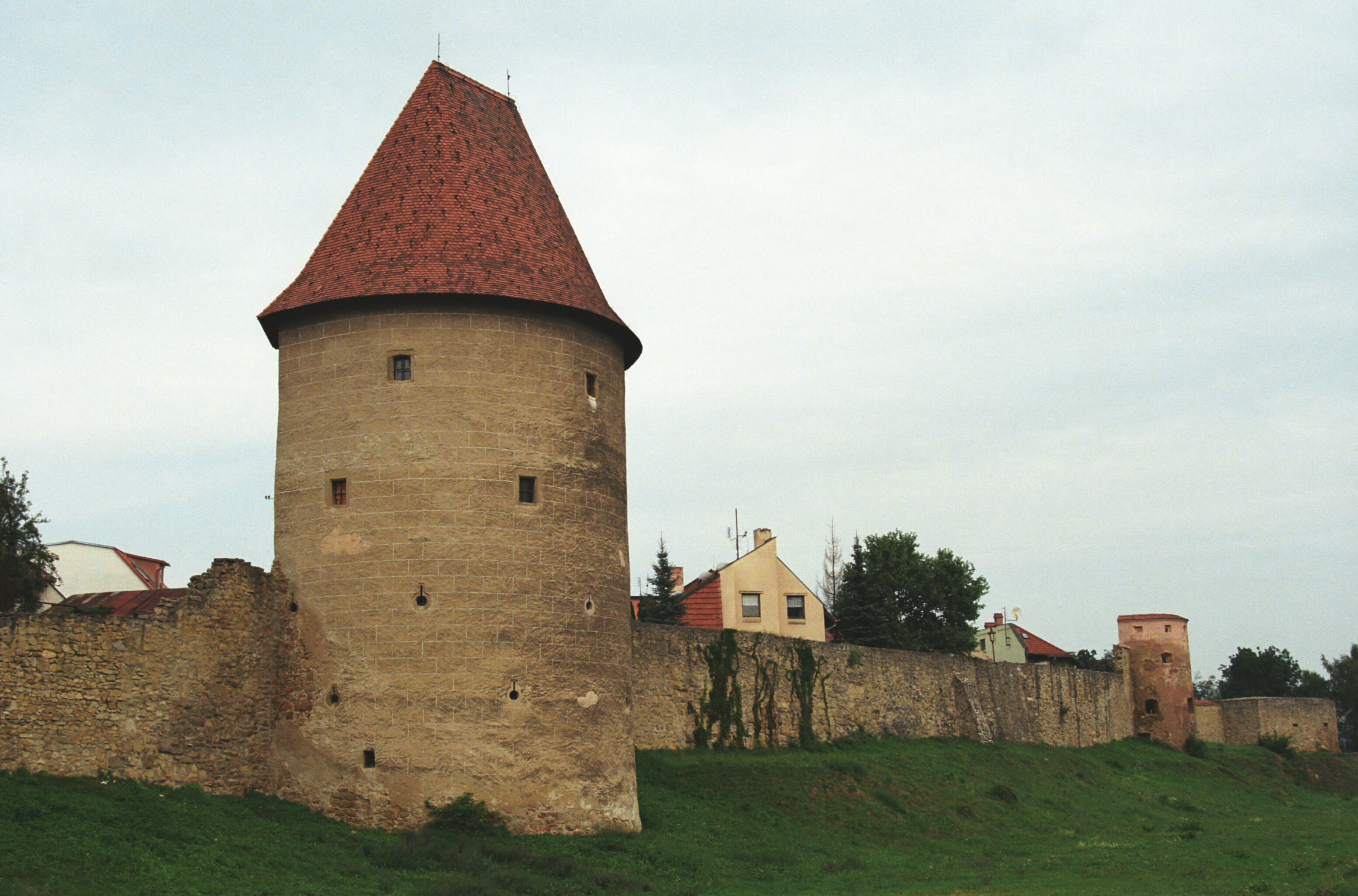 Bardejov (Bartfeld, Bártfa). City walls